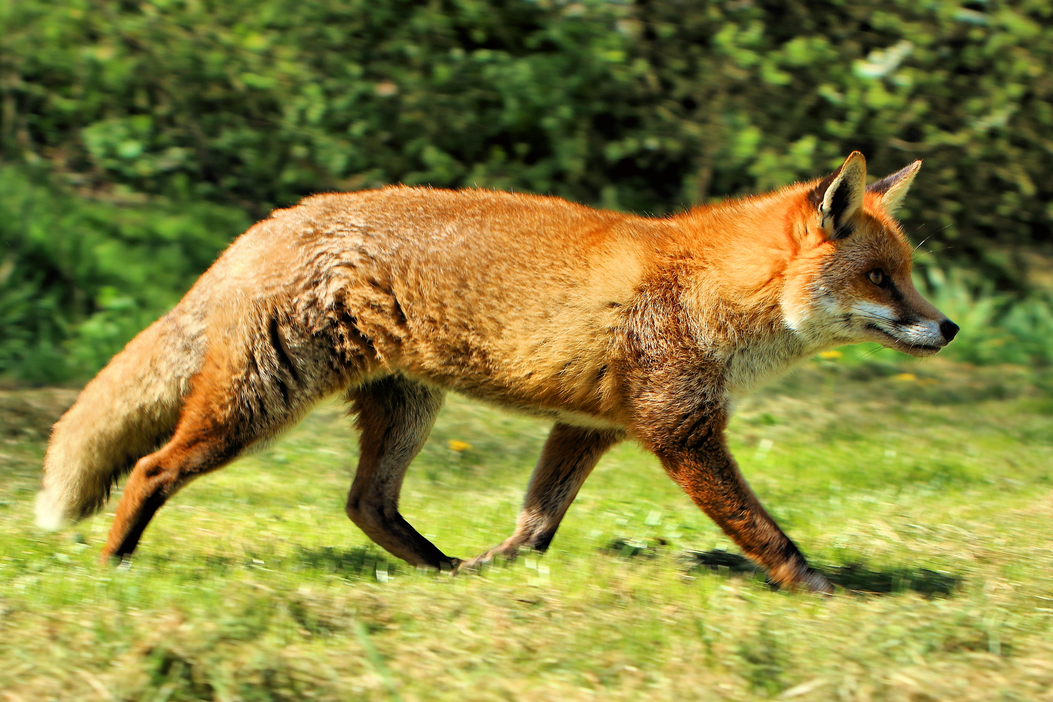 Fox - British Wildlife Centre.